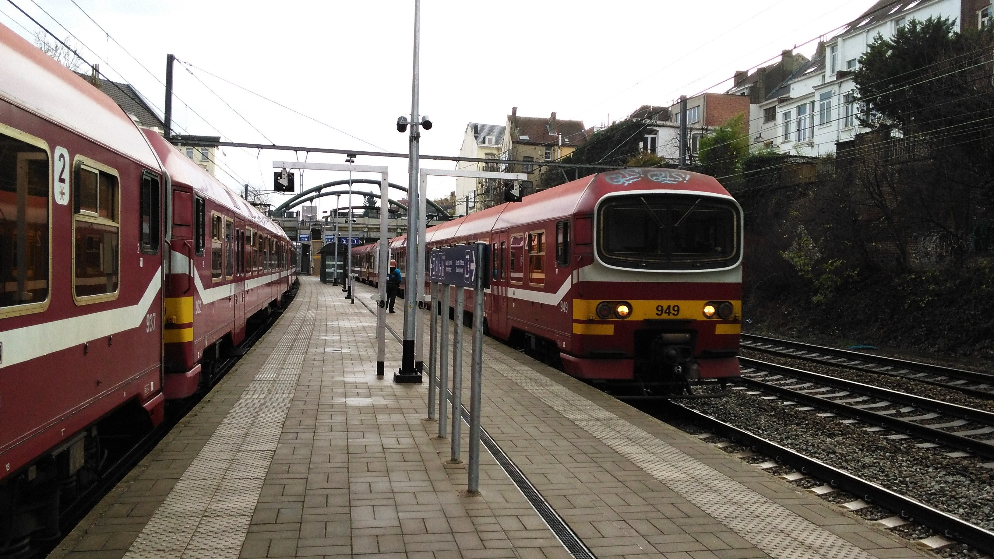 Aankomst van twee treinen in station Mouterij